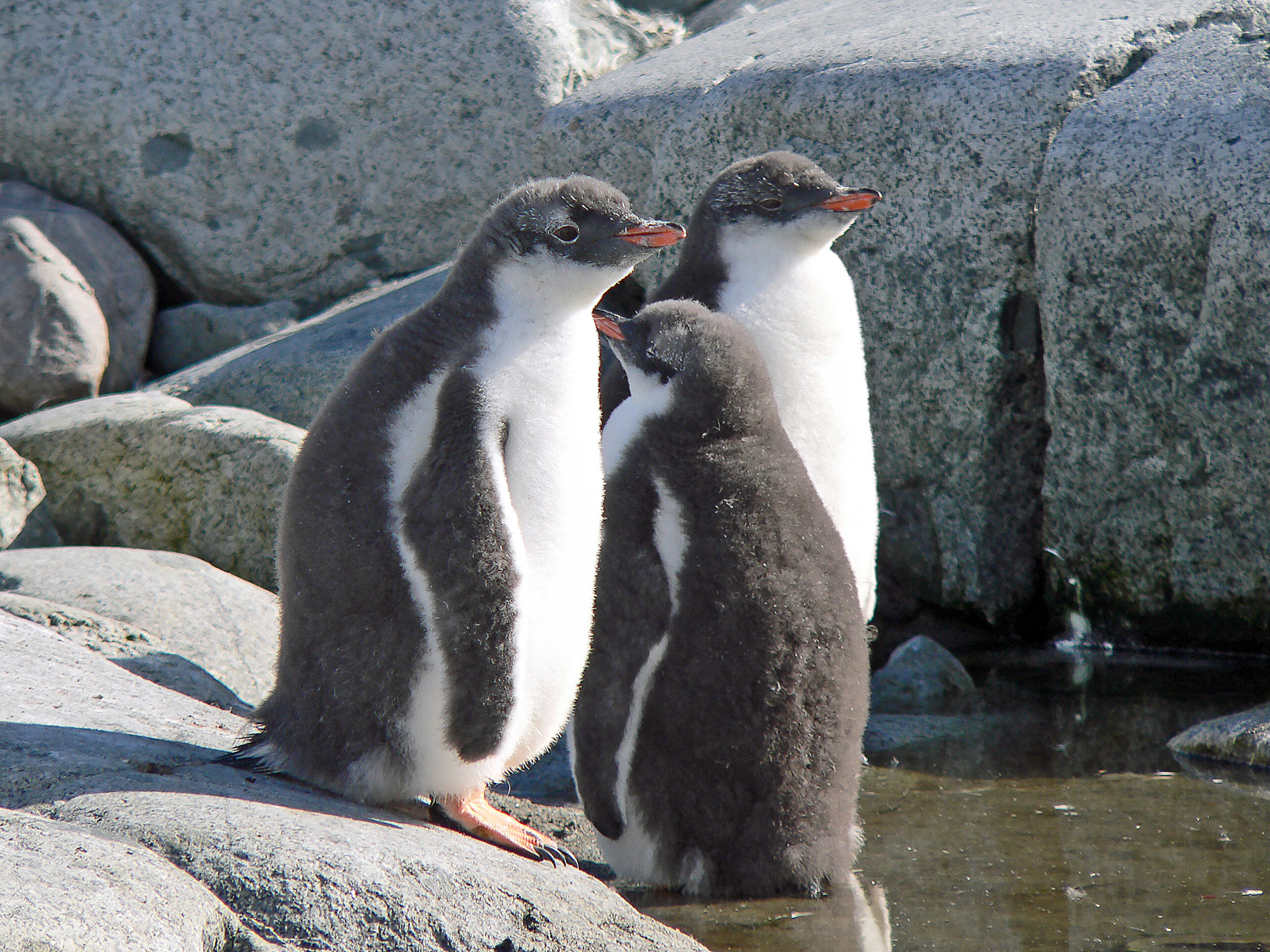 Young gentoo penguins on Peterman Island